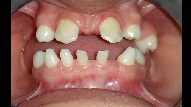 Anodontia view of Case 1 patient showing oligodontia and conical teeth.